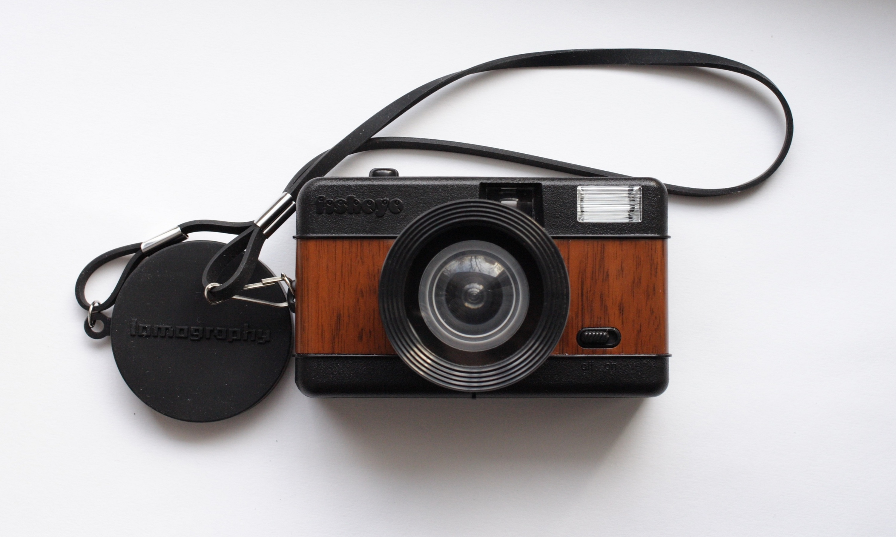 Lomocamera Fisheye Woodgrain